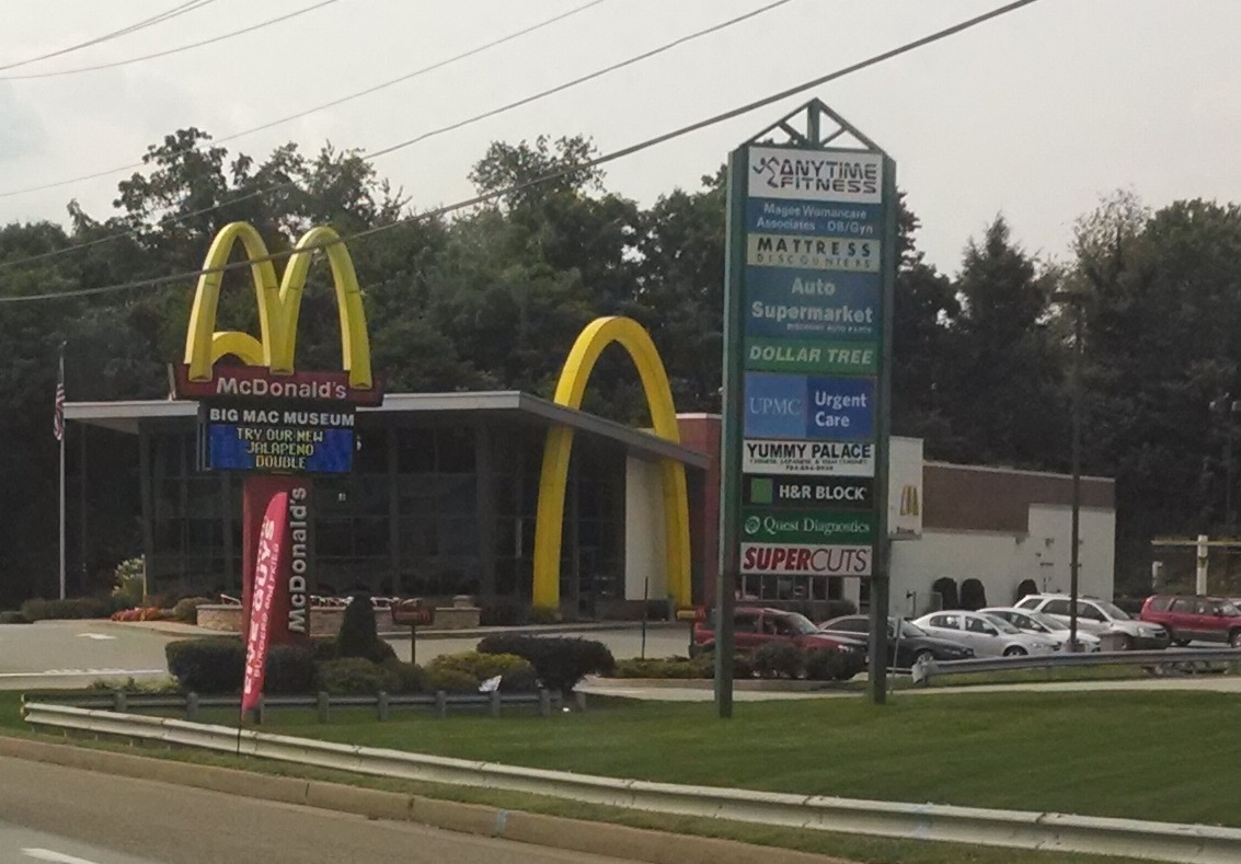 Photo of McDonald's location with Big Mac Museum. Took image myself 08/07/2014.